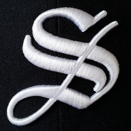 Logo of the Ingolstadt Schanzer, a german baseball team. A white S on a navyblue baseball cap.